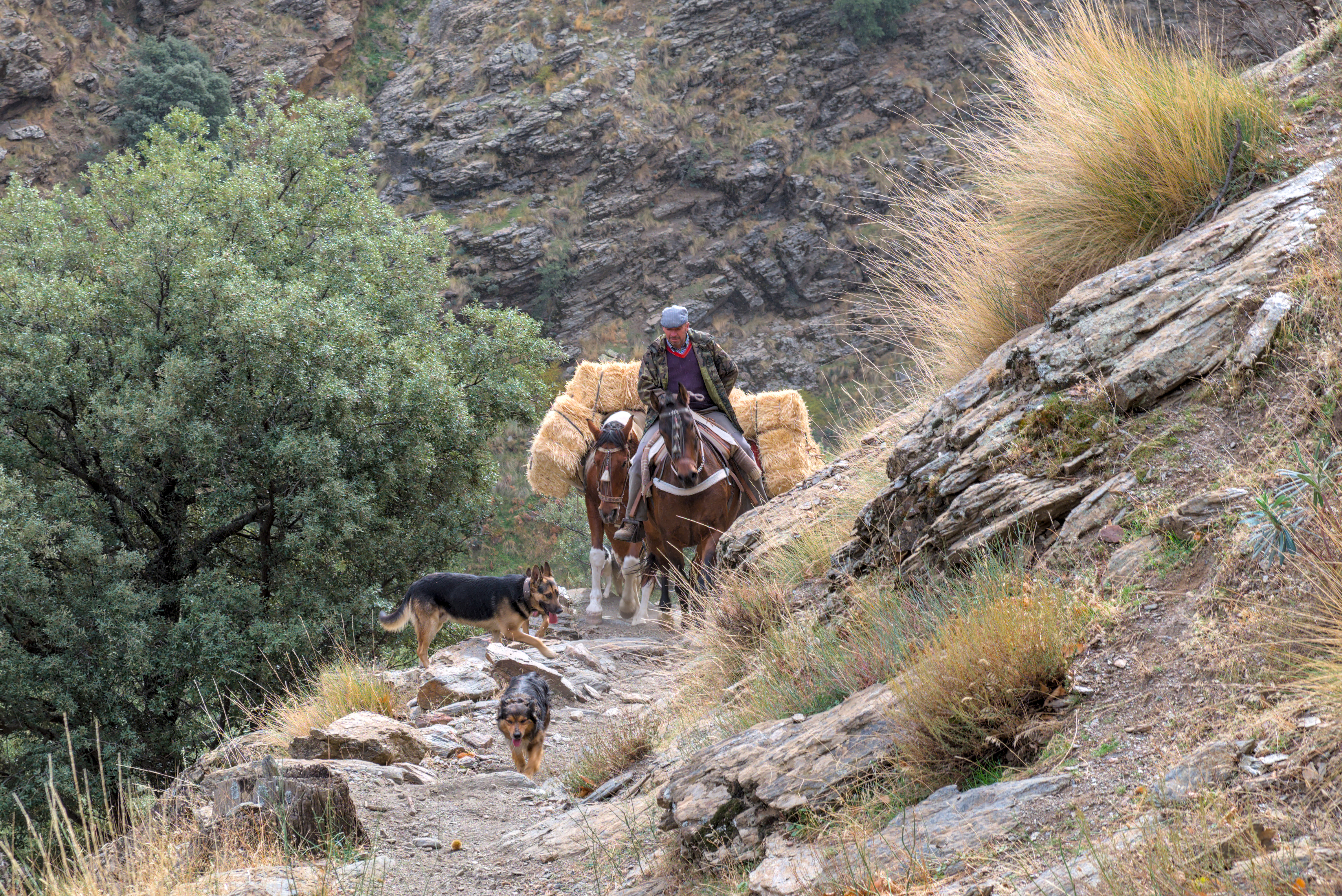 Horses carrying hay up Sendero Acequias del Poqueira in Capileira, Sierra Nevada National Park This is a photography of a Special Area of Conservation in Spain with the ID: ES6140004. Natura2000 entry, EEA entry